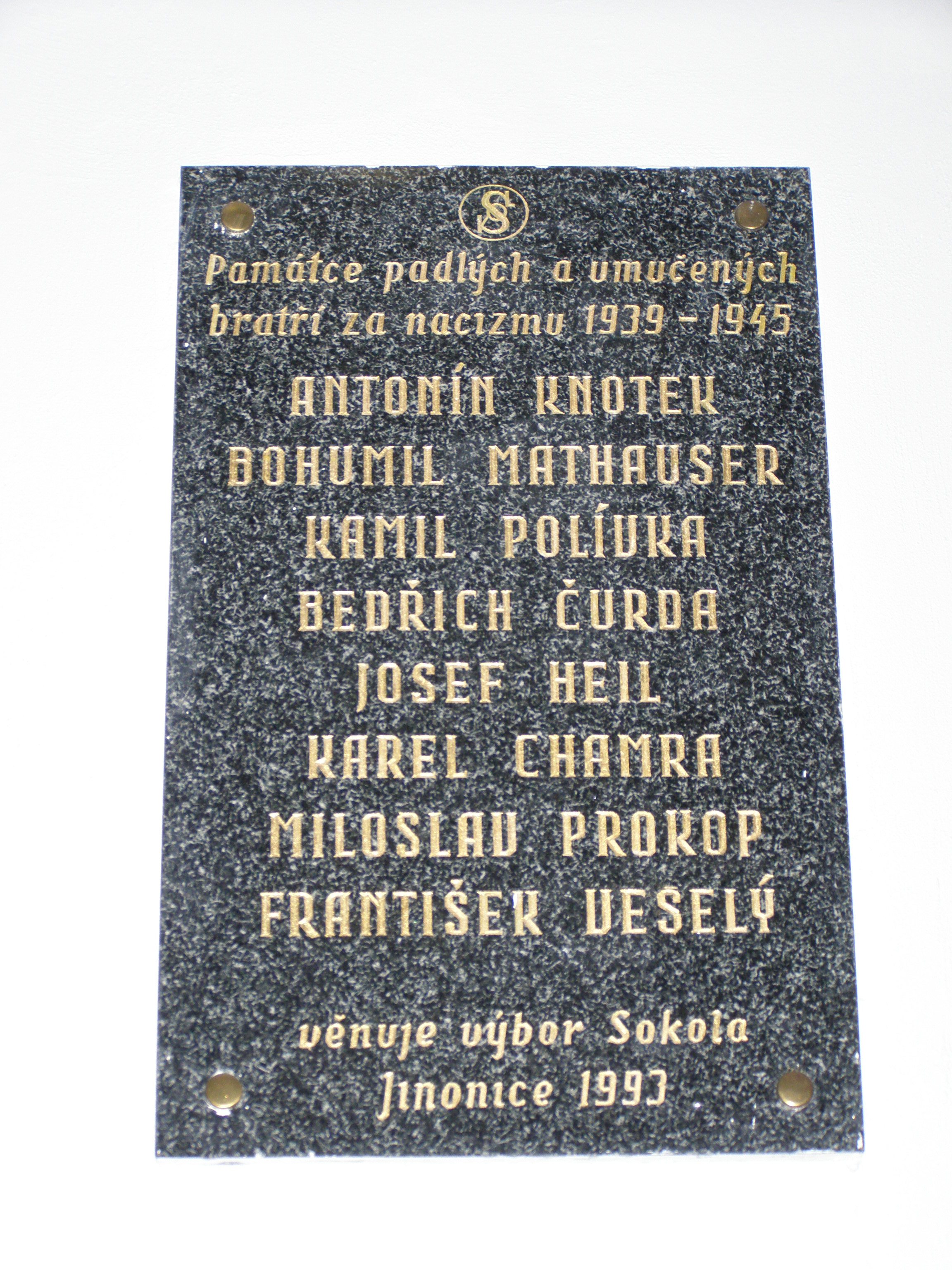 A memorial plaque dedicated to "the memory of fallen and tortured brethren" (members of the Sokol organisation) for Nazism (years 1939-1945) is located in Prague in the foyer of the building Sokol Jinonice at the address: Butovická 33/100, Prague 5 - Jinonice, Czech Republic.